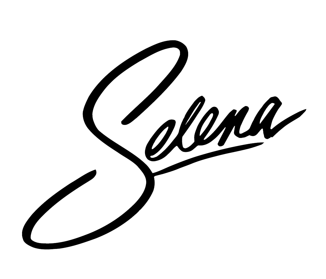 Selena Quintanilla signature